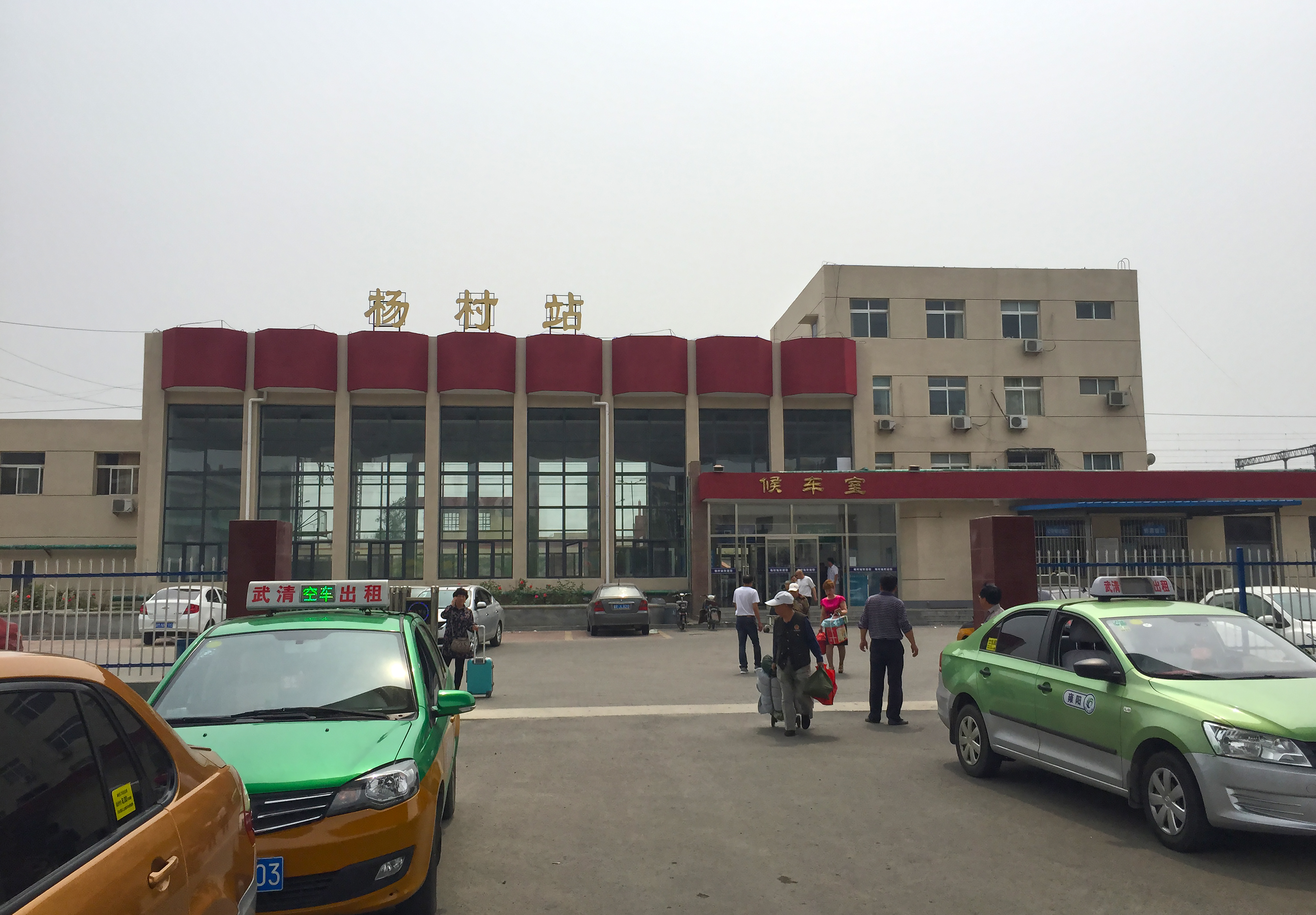 Next sector: T5684.